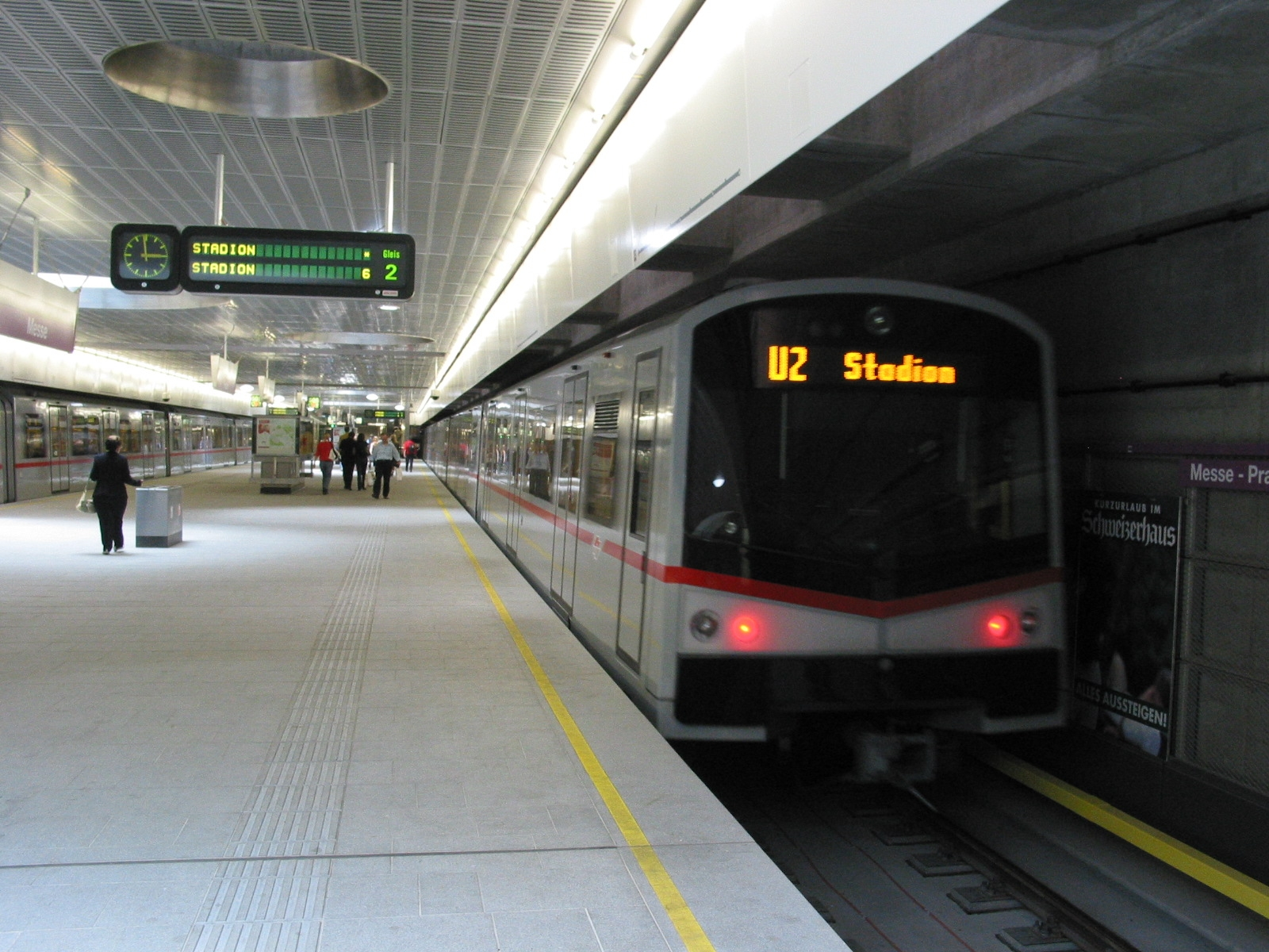 Subway station Prater Messe of line U2 in Vienna